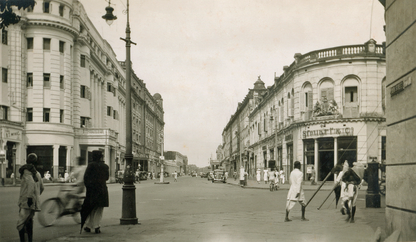 Kolkata (India): Park Street in the 1930s